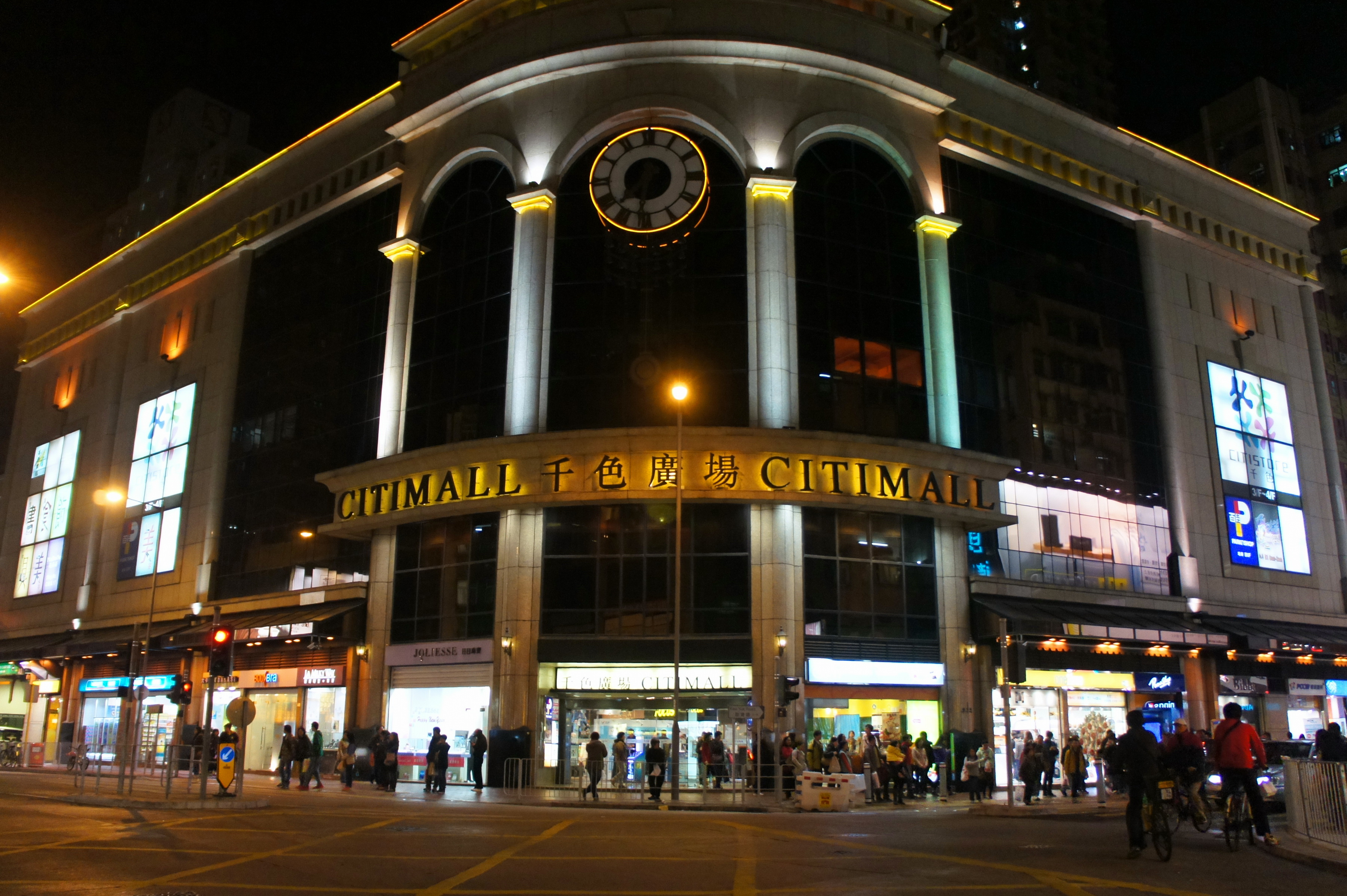 Citimall, Yuen Long, New Territories, Hong Kong. Kau Yuk Road is on the right and Tai Tong Road is on the left.